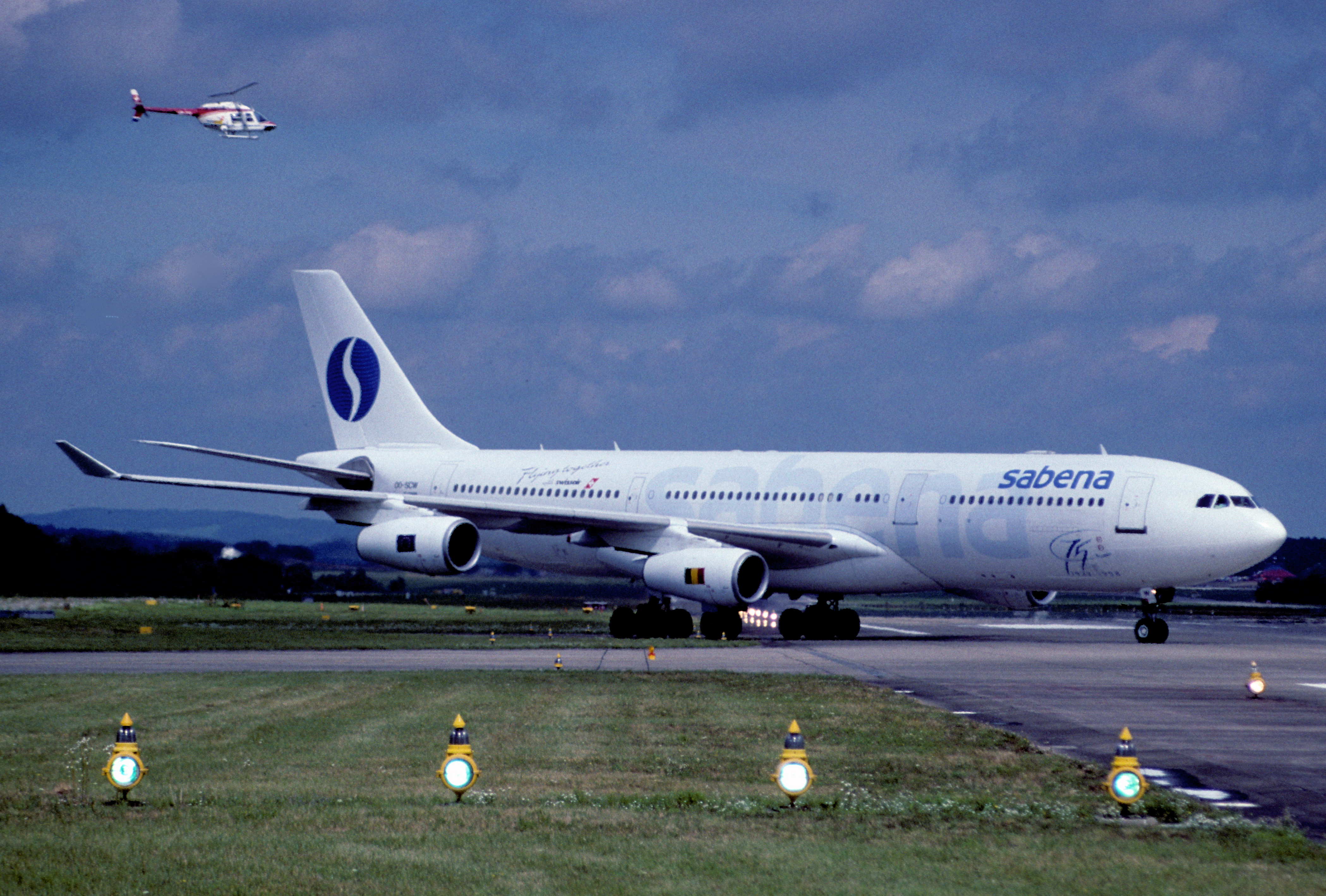 First flight: April 1, 1993...(c/n 14) 09/06/1993 Air France F-GNIB 28/03/1996 Lufthansa F-GNIB 26/06/1996 Sabena OO-SCW 17/08/2000 AOM French Airlines OO-SCW 07/11/2000 Sabena OO-SCW ceased operations on November 7, 2011, ferried to Chateauroux, January 2002 28/05/2003 Royal Jordanian Airlines F-OHLP 04/07/2007 Royal Jordanian Airlines JY-AIC